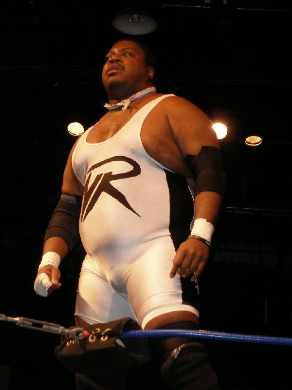 Professional wrestler Willie Richardson at a Chikara event.